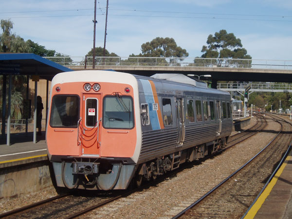 Goodwood railway station, South Australia. TransAdelaide single railcar no. 3025 departs Goodwood station with the 14.01 all stations train to Tonsley. 2 May 2005.